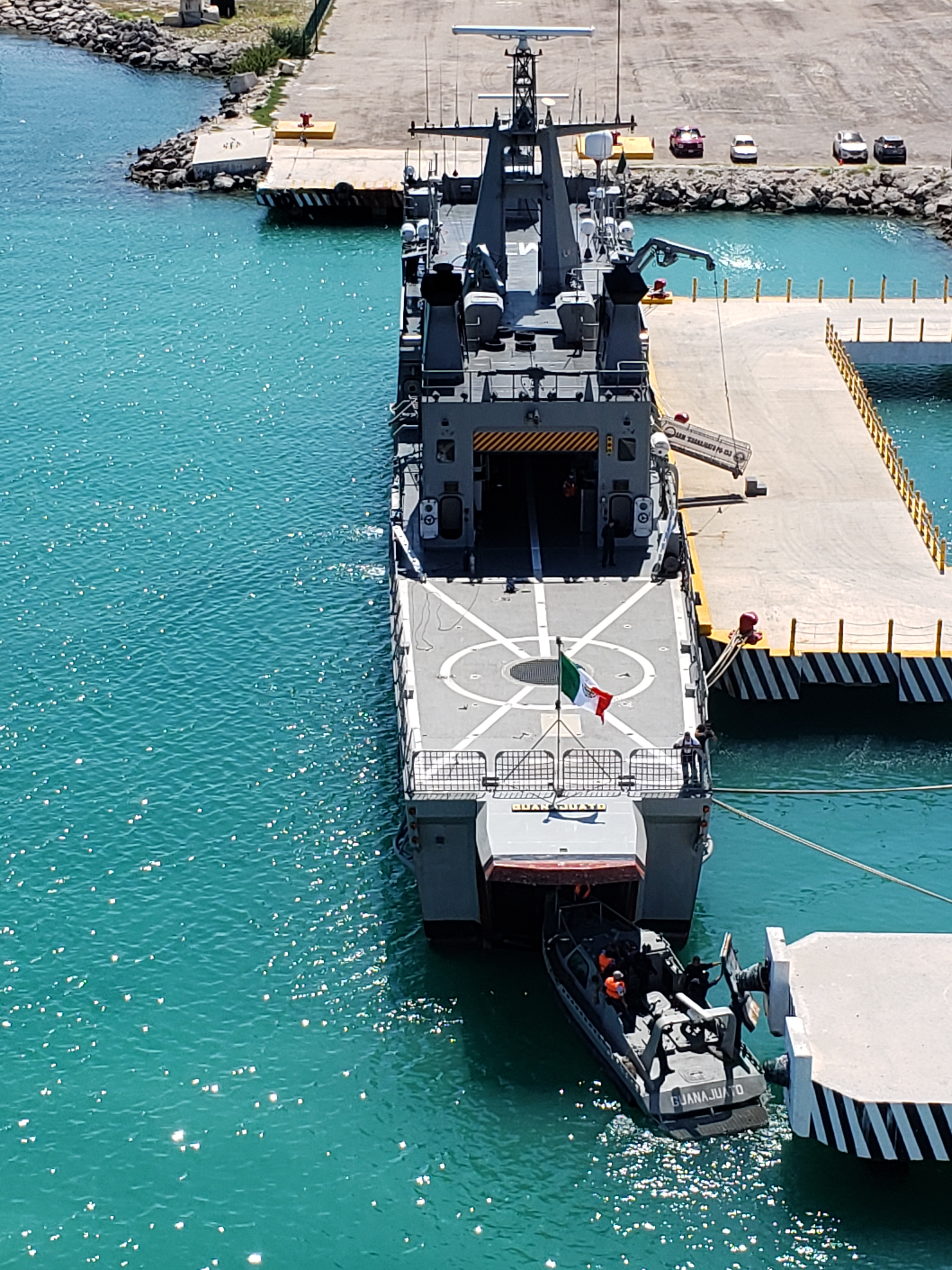 Hangar deck view showing rear boat launch